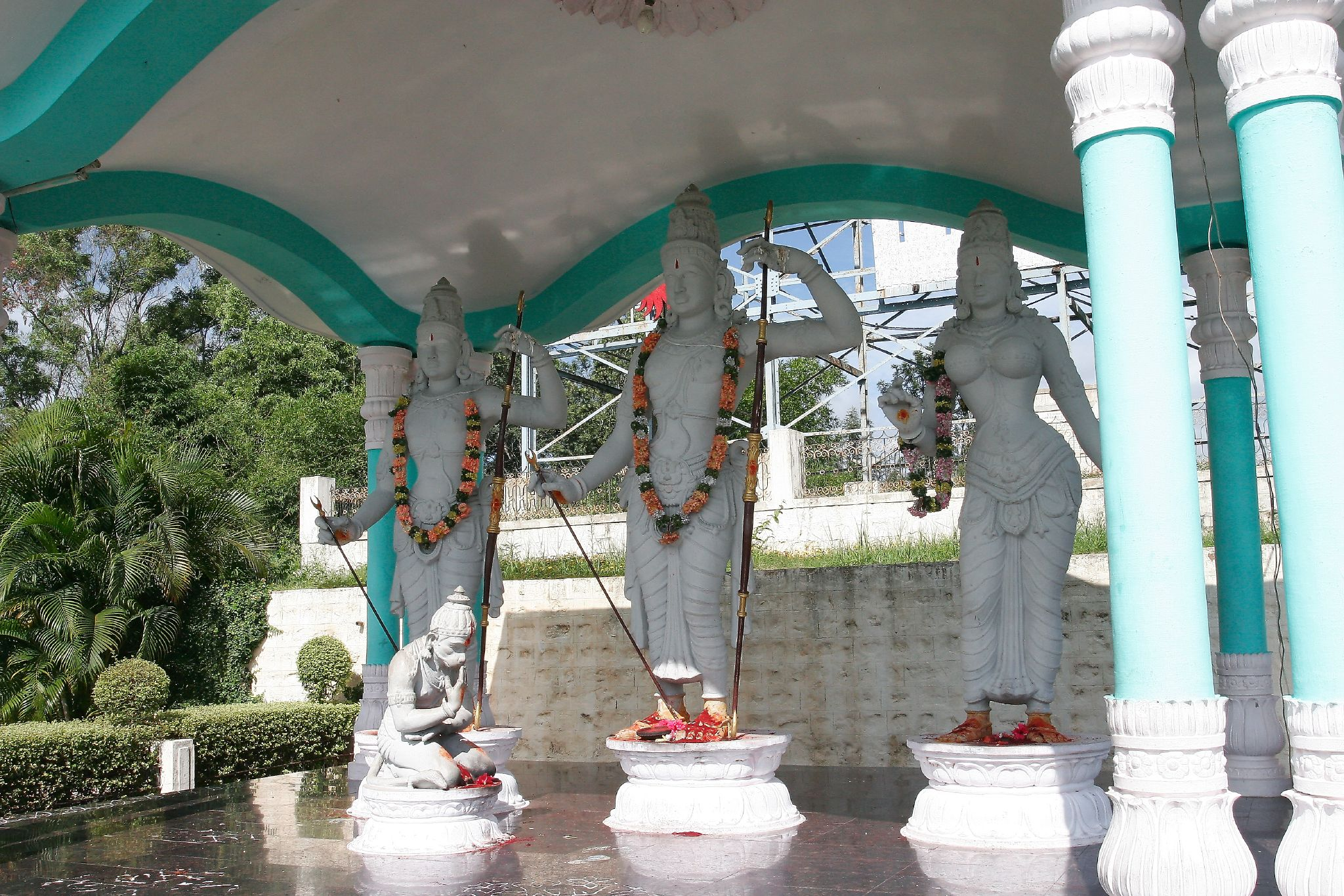 Statues of Lord Rama (center), his wife Sita and his younger brother Lakshmana at Nammavalli in Tirumala. Bending to the lord is the great devotee Hanuman.